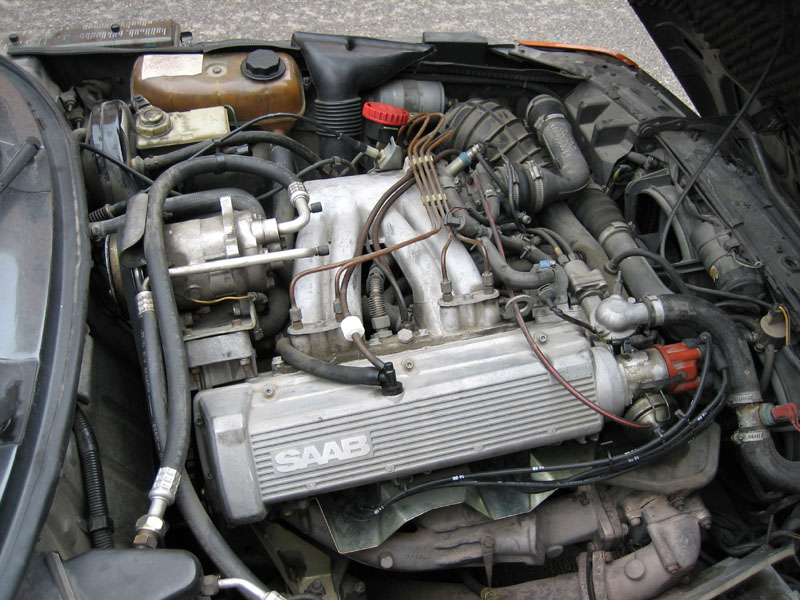 SAAB B201T engine (the H engine)